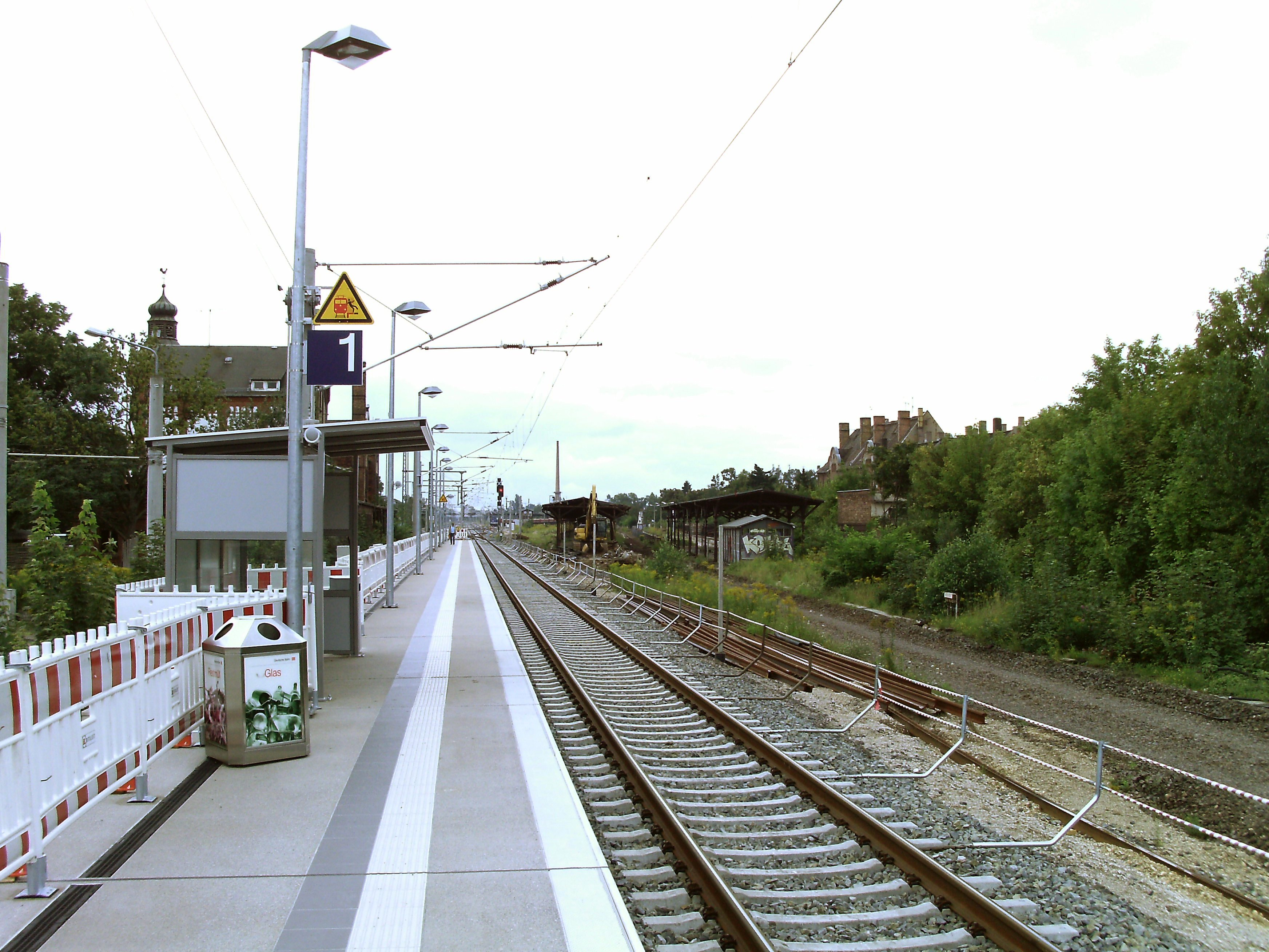 New platform and old station in Leipzig-Plagwitz in August 2011